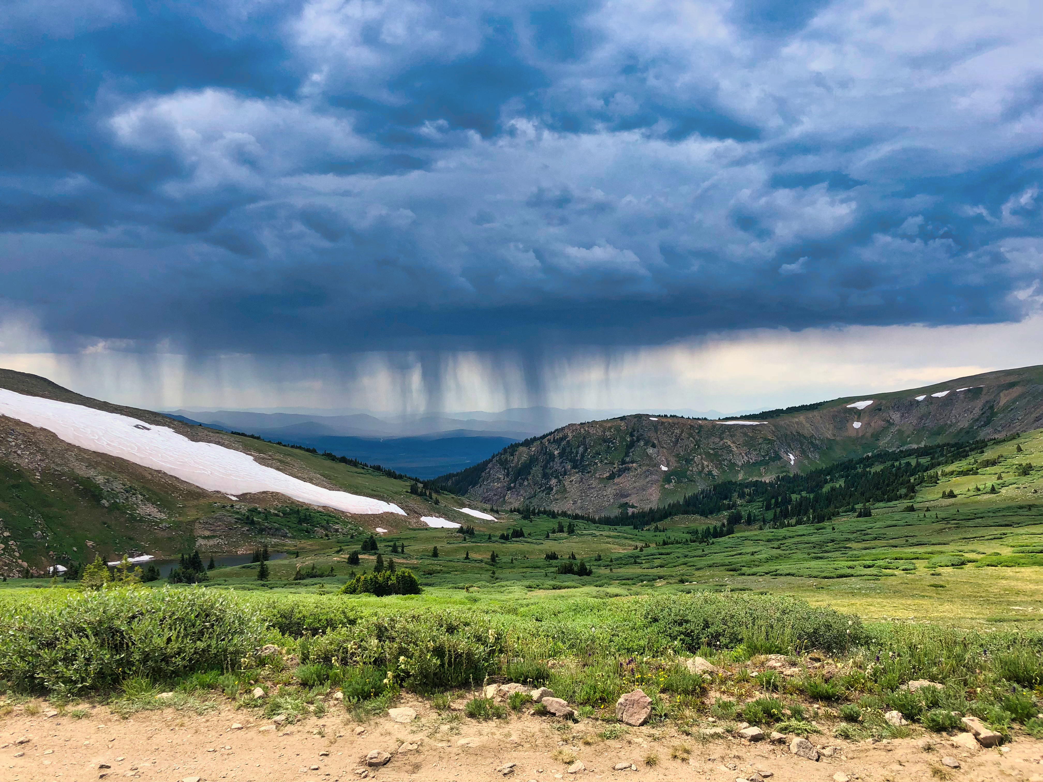 Summer storms blow in quickly on the Continental Divide